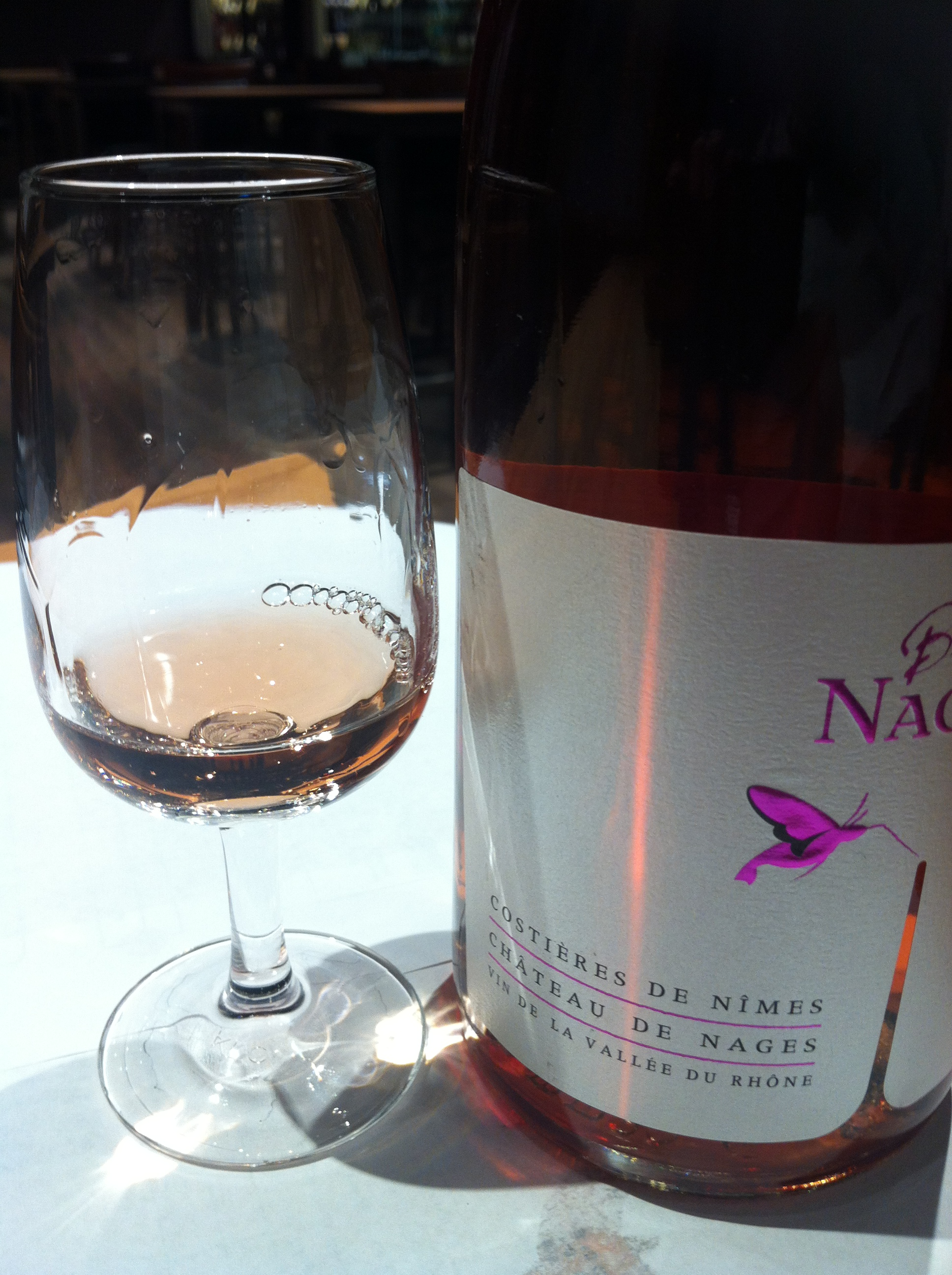 Rose wine from the Costieres de Nimes region